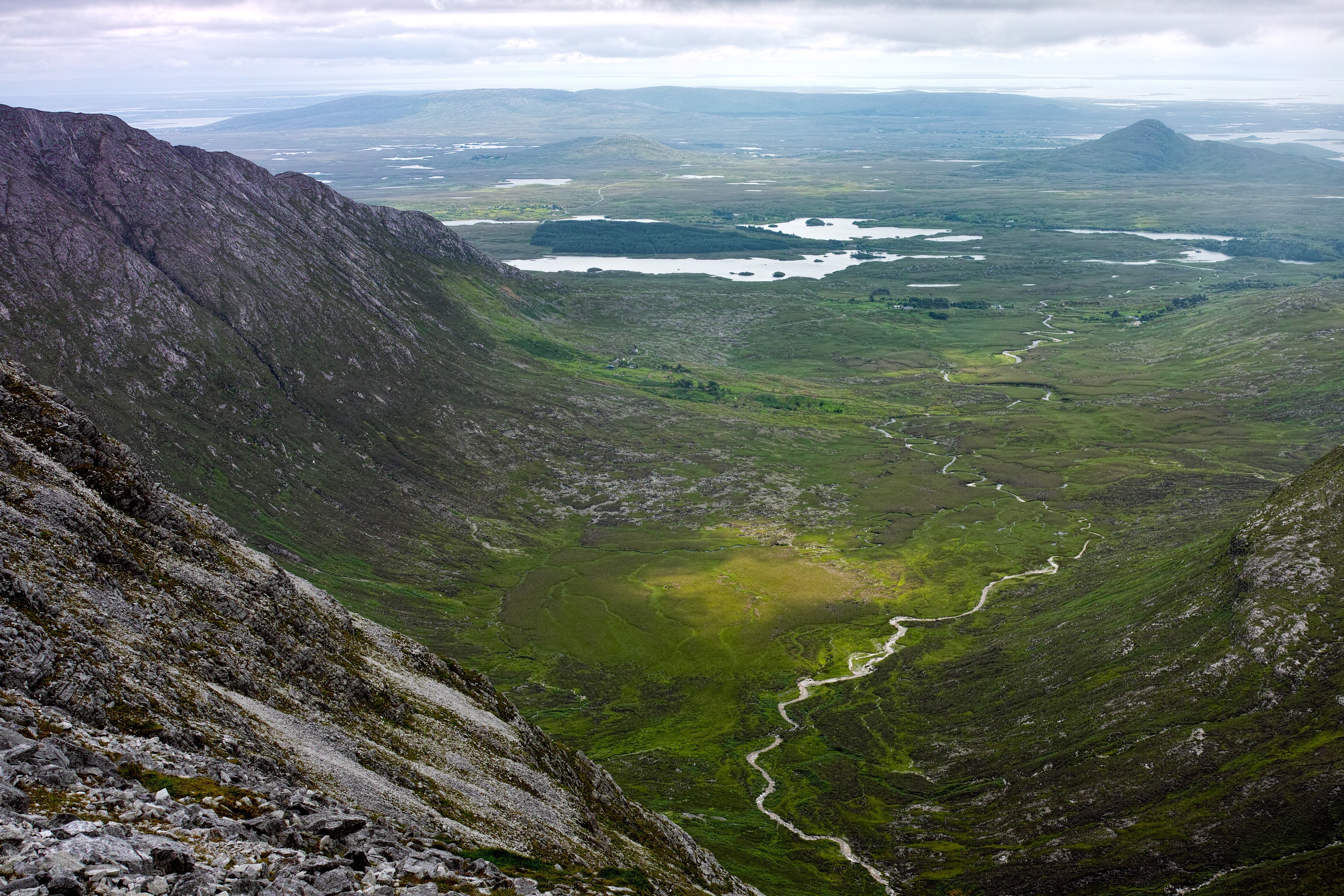 Looking down into the Glencoaghan Horseshoe (and Glencoaghan River) from the apex of the horseshoe at Bencullaghduff, Twelve Bens, Connemara, Ireland